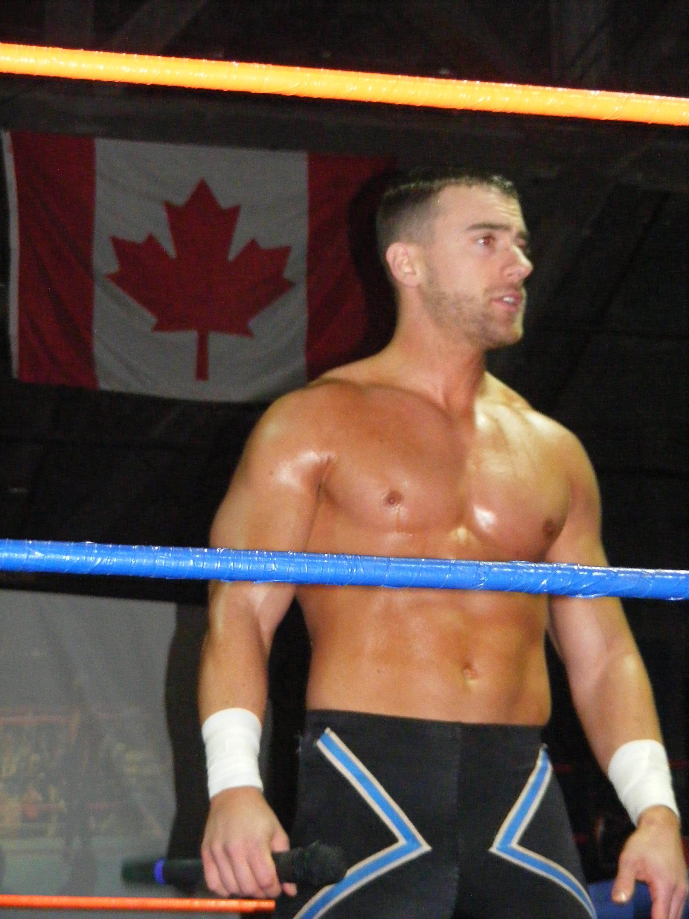 Professional wrestler "Hurricane" John Walters (real name John Stagikas) at a 2CW show in Watertown, New York in April 2009.